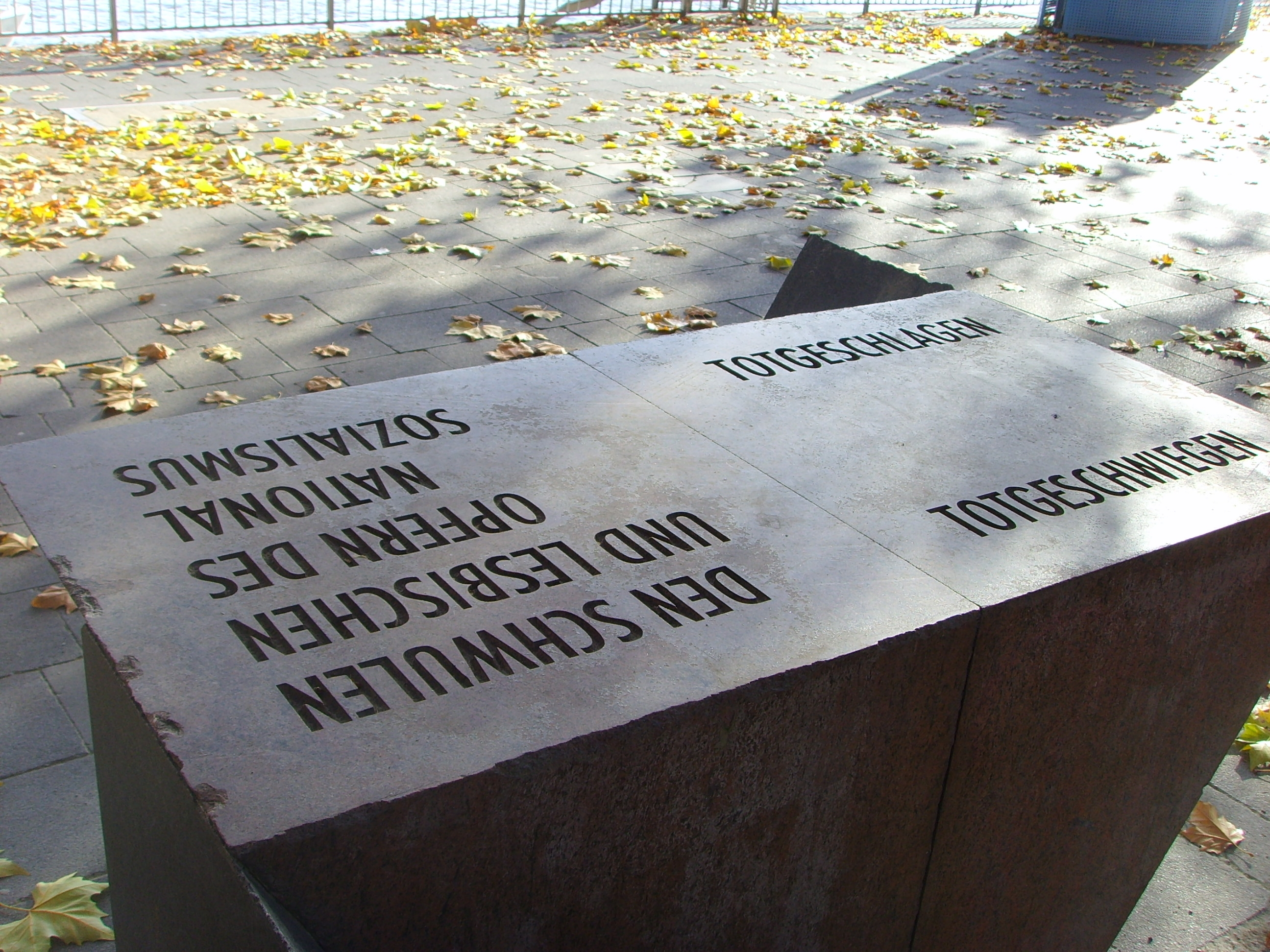 Inscription of the memorial: Struck dead, hushed up. For the gay and lesbian victims of National Socialism.